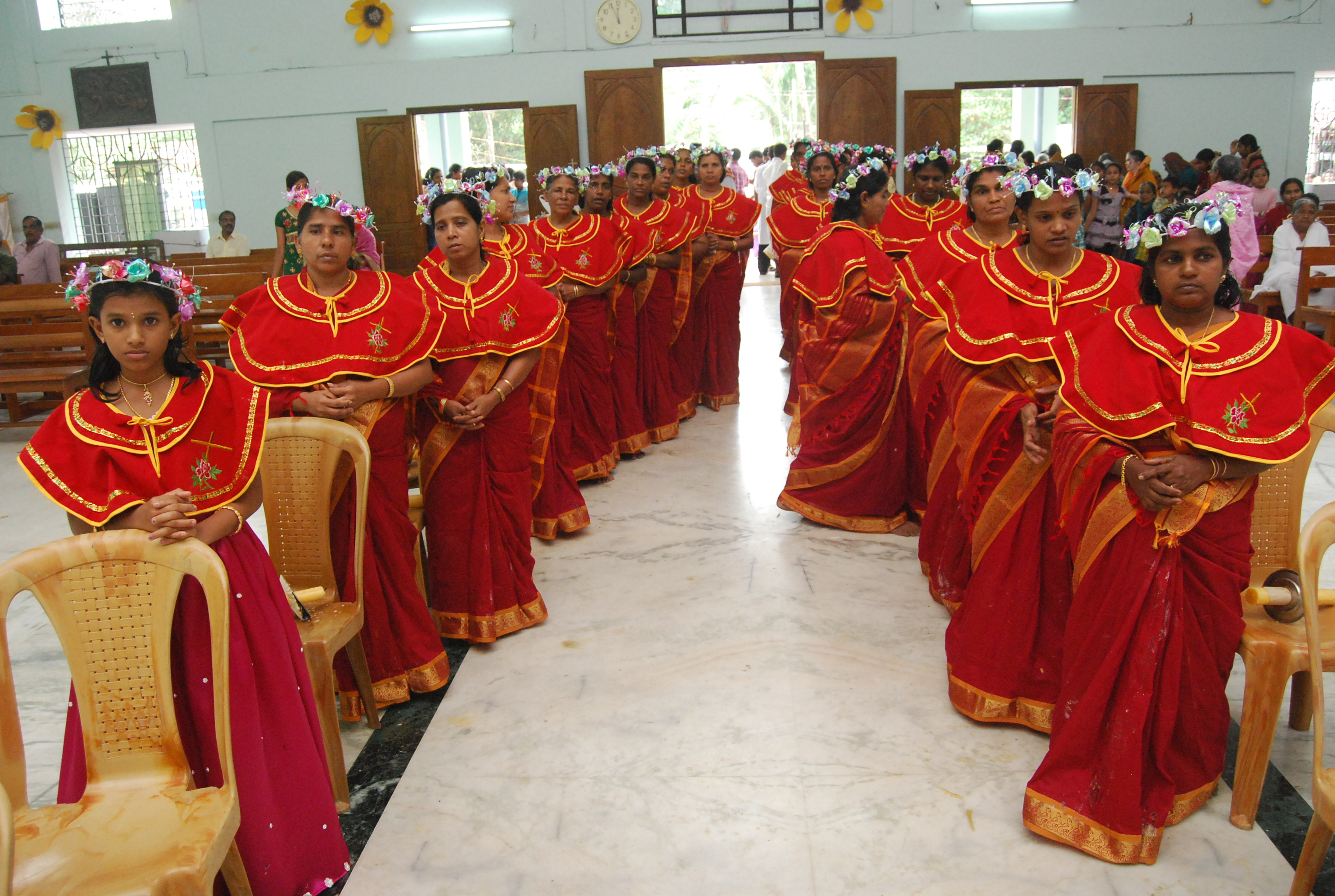 The Presidents in their Dress Code